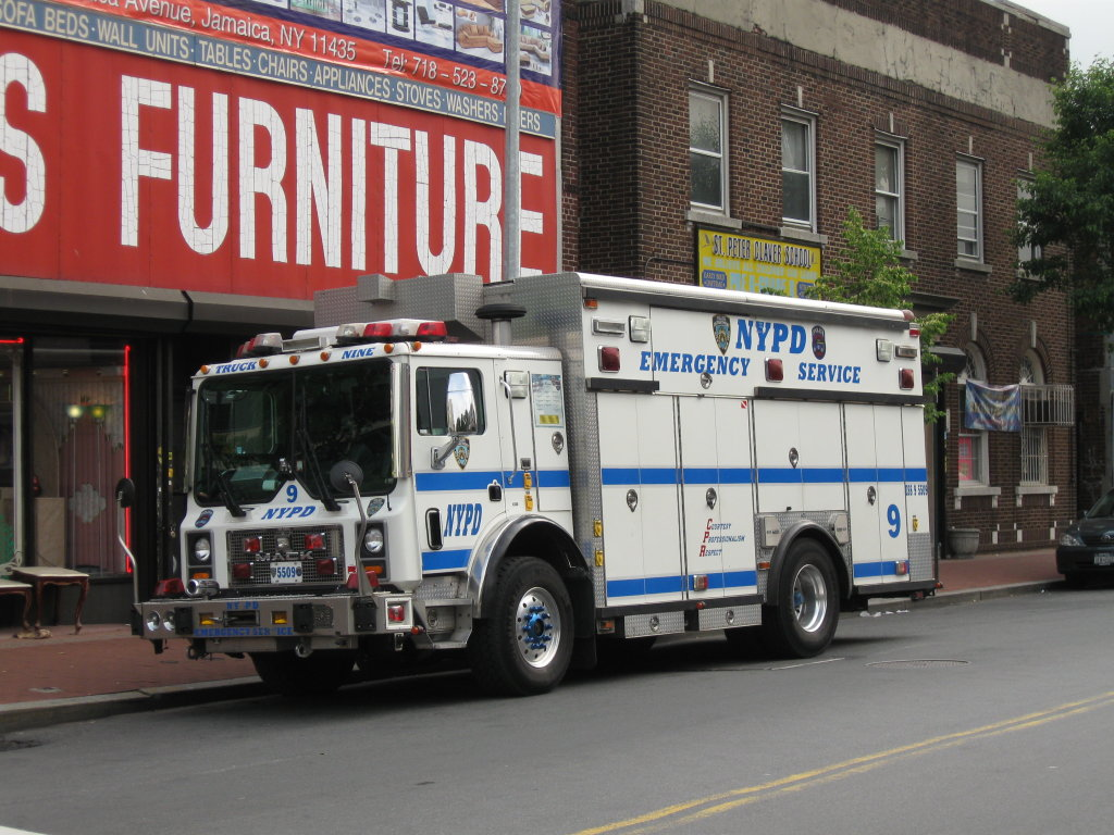 New York Police Department Emergency Service Truck #9 sits in Jamaica, NY.